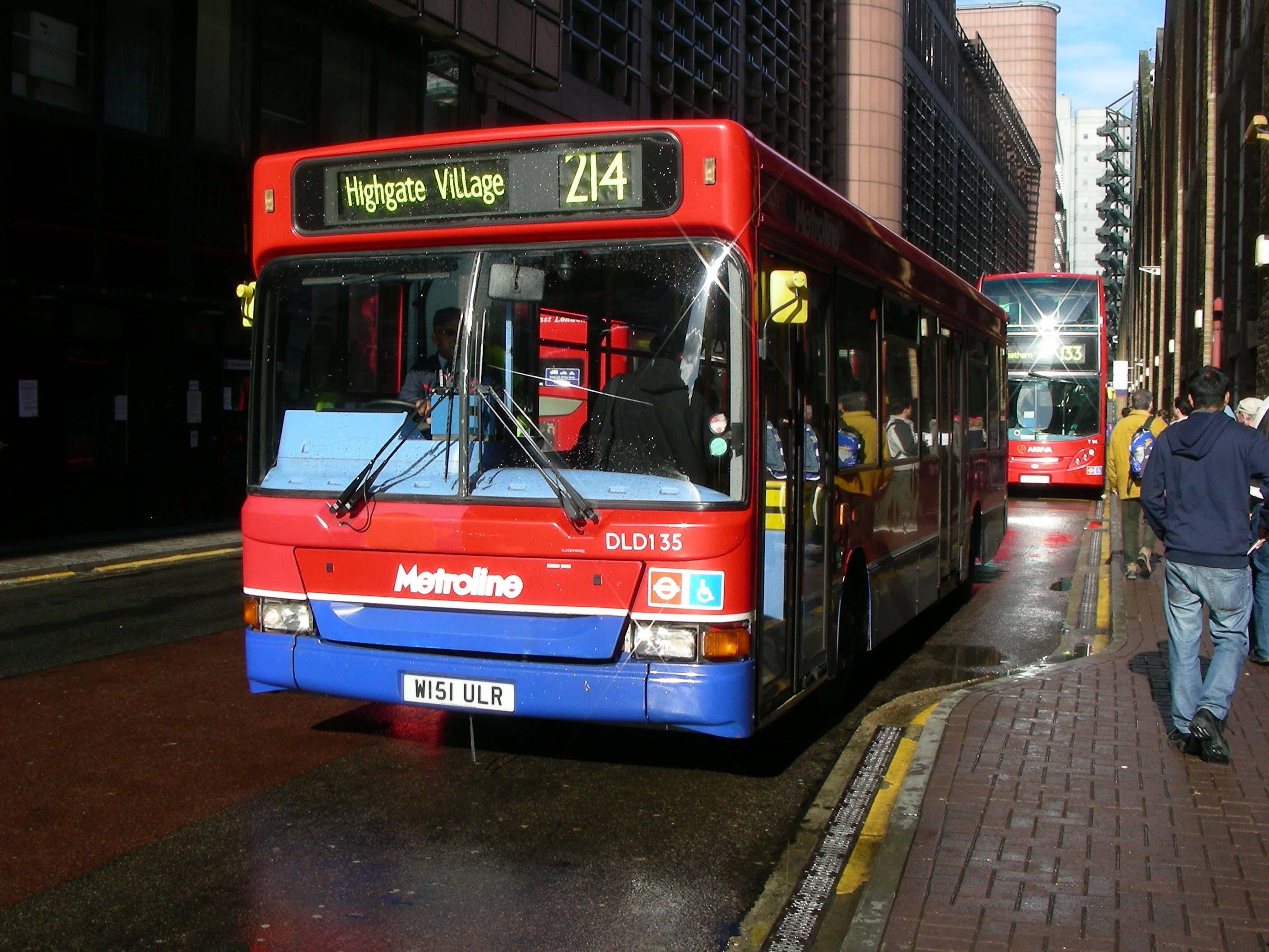 W151 ULR at Liverpool Street station on route #214 to Highgate Village on 16th October 2010.